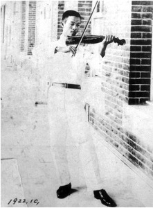 Kan Kiat, a Taiwanese agrarian activist